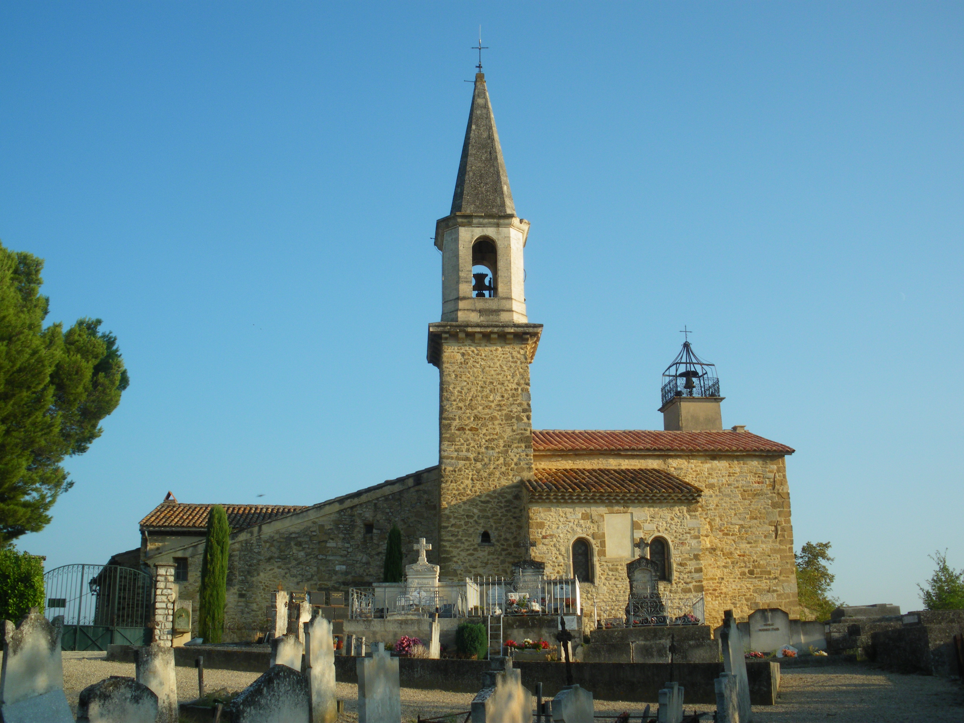 Loriol du Comtat church (Vaucluse, France), view from the cemetery